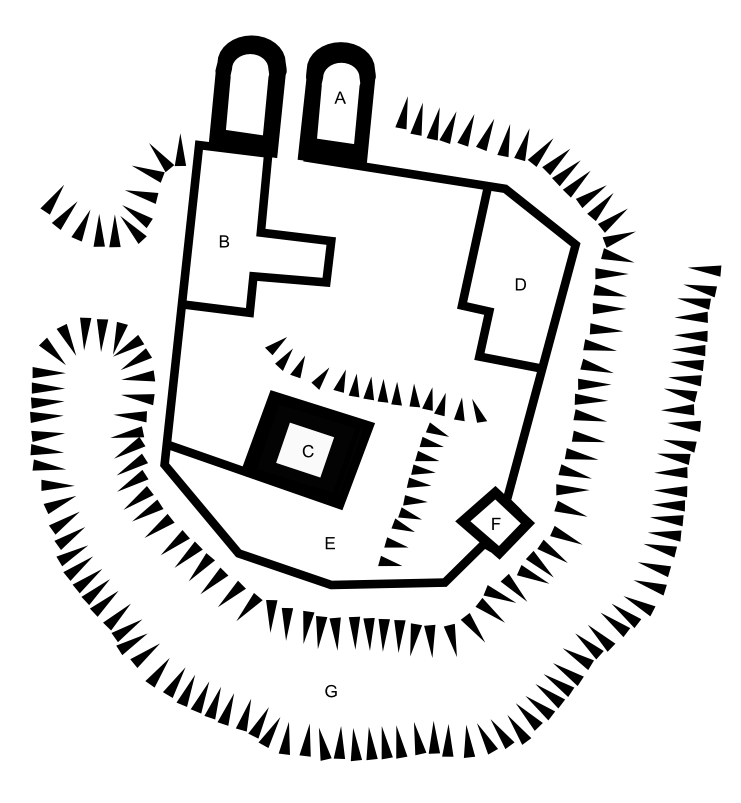 A diagram of St Briavel's castle.